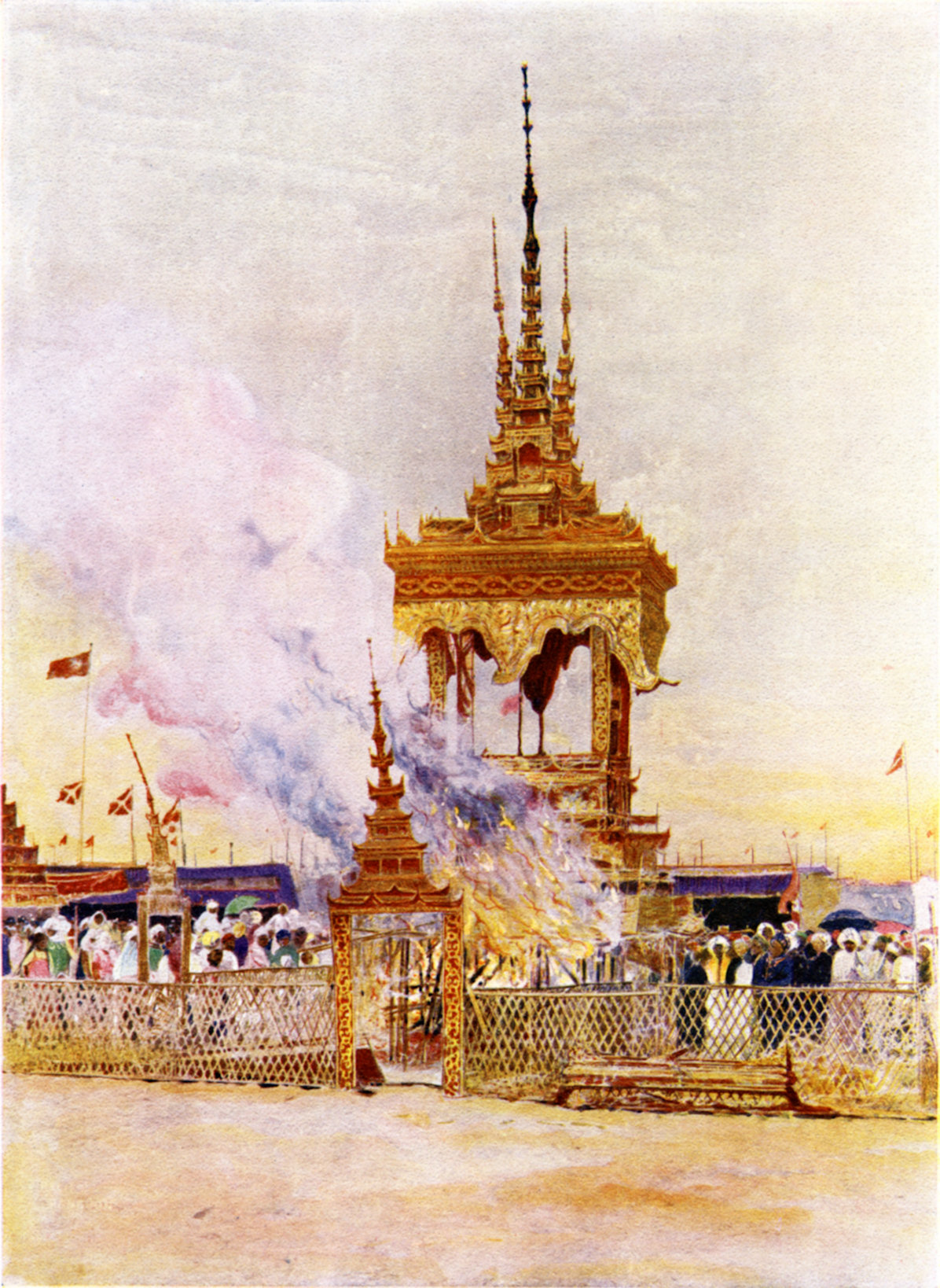 The cremation of a pôngyi. When a Burman monk or pôngyi (the "great glory") dies, he is never buried, but always burnt. The funeral pyre is made of bamboo, and the framework is covered over with gilt paper and tinsel, and forms quite a striking spectacle. It takes a long time to build, and therefore it is not lighted as one might light a fire. Ropes lead from all sides and, along these, rockets are guided towards it. The rocket that kindles the spire brings much good luck to the village that has furnished it, and the gaily dressed crowd dance with delight.